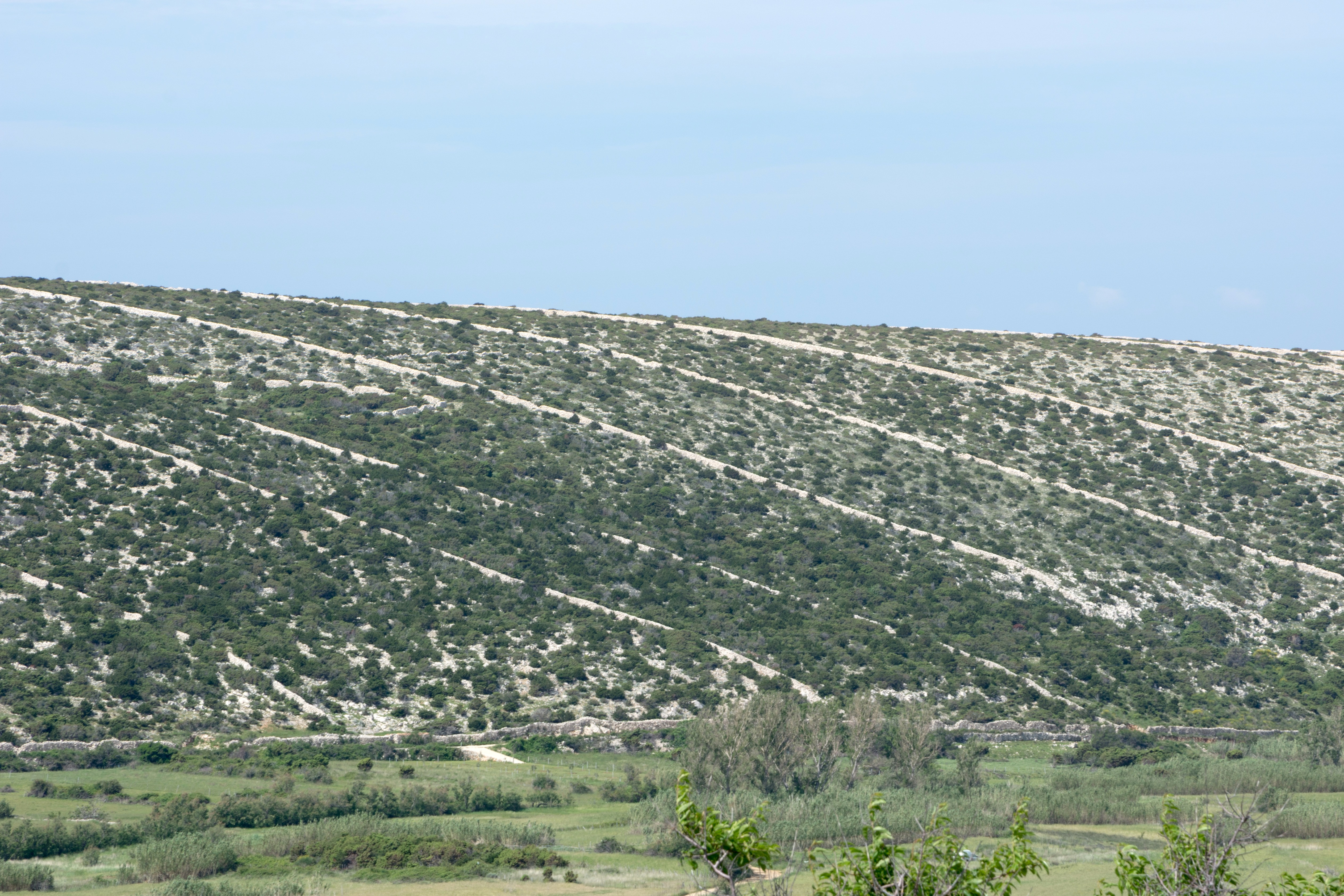 Typical dry stone walls of the island Pag in front of Kolan are marking the land boundaries.